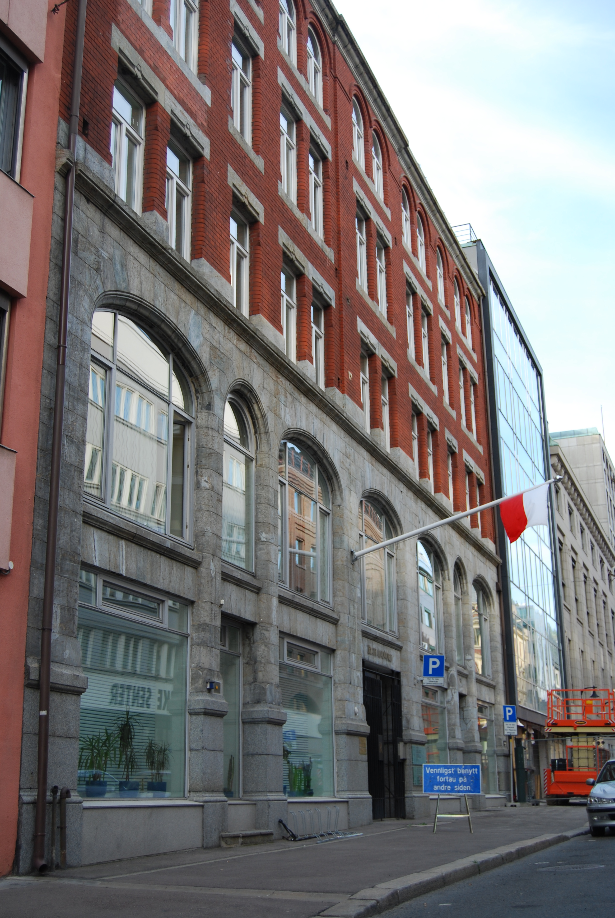 Nedre Vollgate 5, Oslo, Norway. Office building from 1897, architect Kristen Rivertz and facade by Oscar Hoff. Former Polish consulate in Oslo.